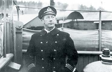 Leif Welding-Olsen, Norwegian World War II naval officer